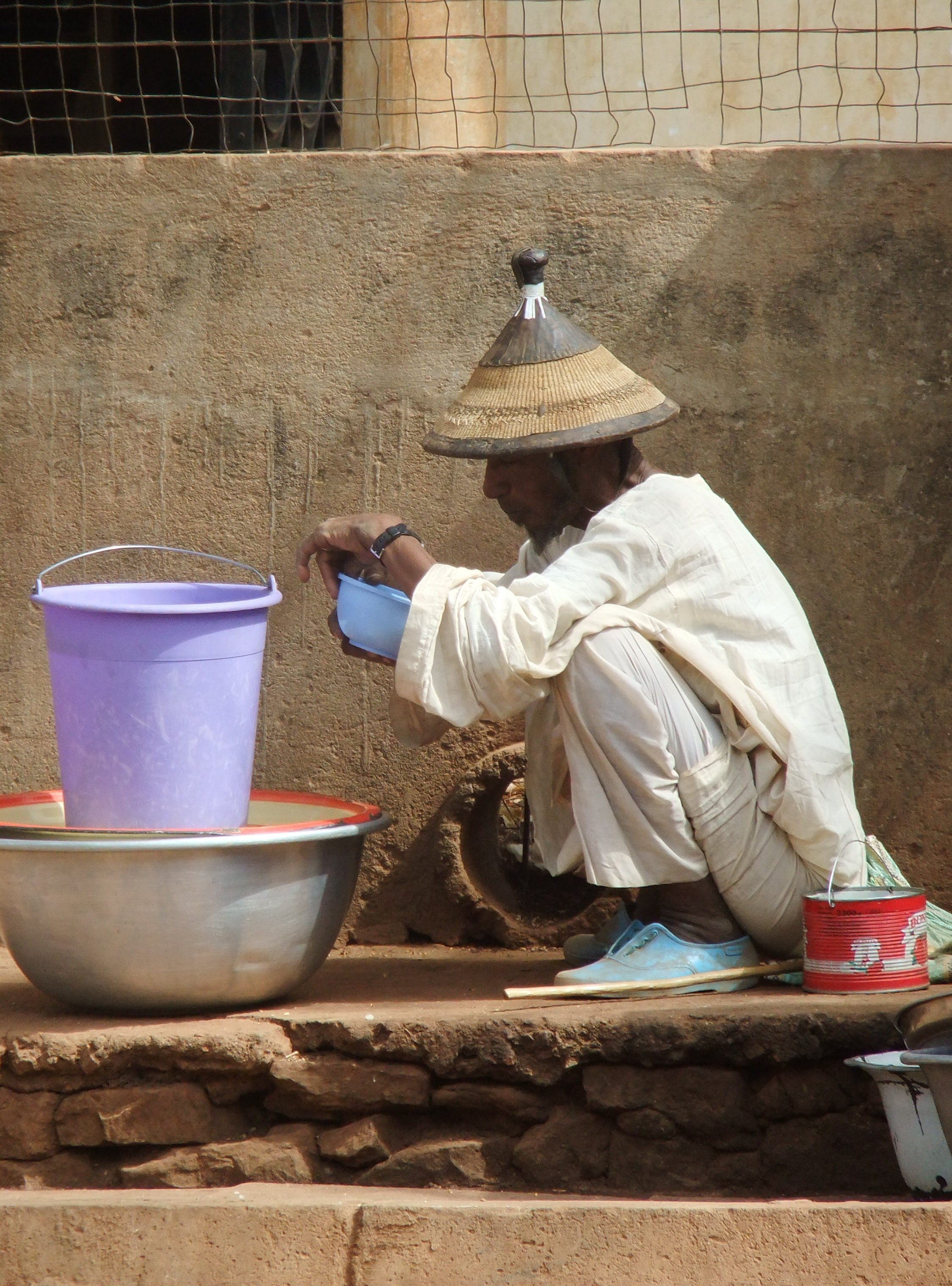 Dapaong, Togo This is an image of "African people at work" from Togo